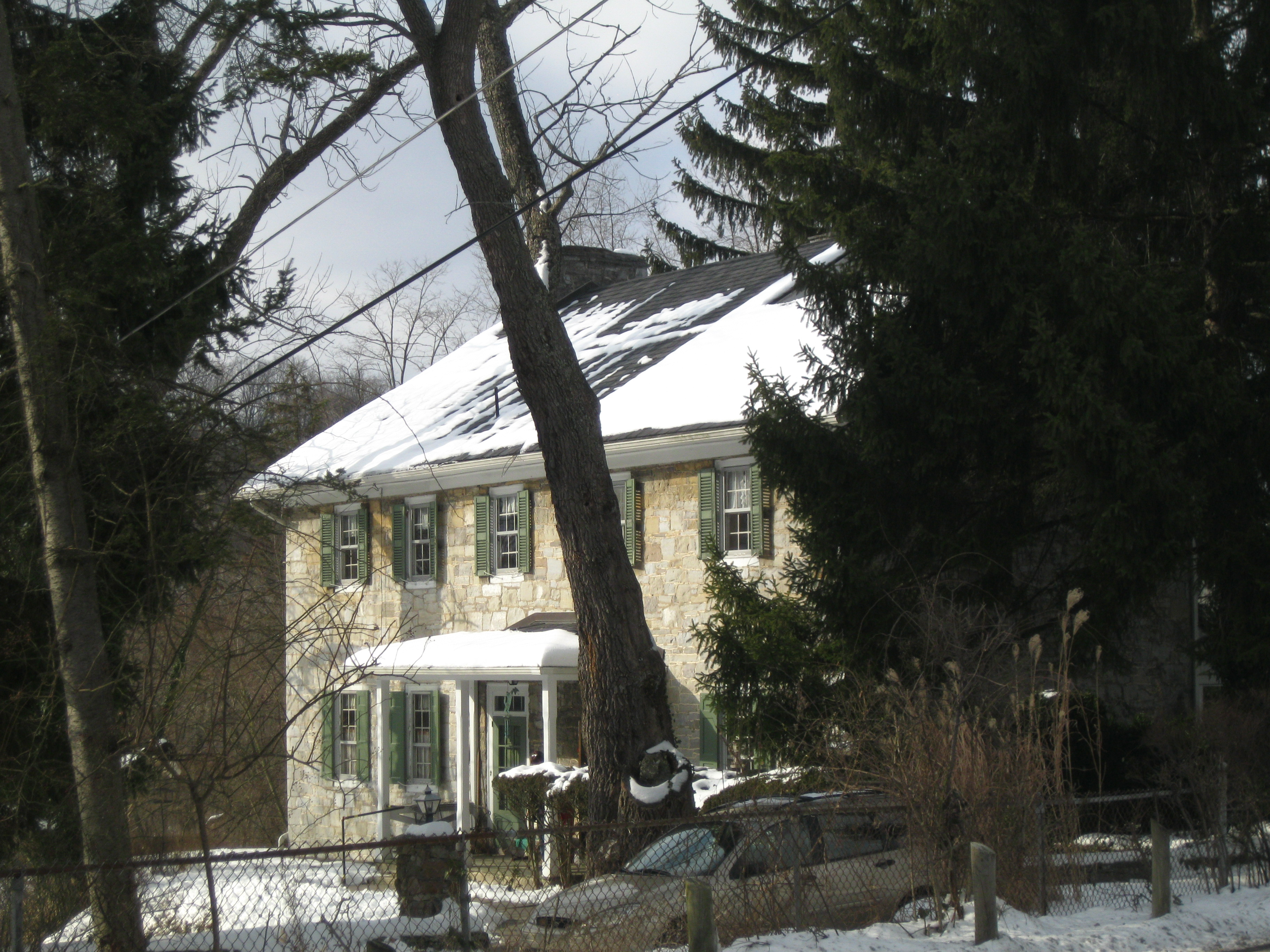 Front of the Felix Dale Stone House on Pennsylvania Route 871 south of the village of Lemont in College Township, Centre County, Pennsylvania, USA. License is GFDL and CC-BY-SA.